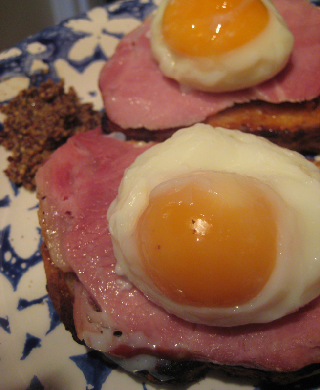 Poached eggs & smoked bacon on toast